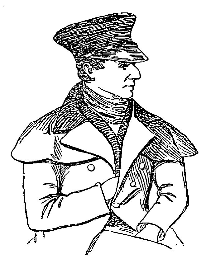 Print of McDonald Clarke, the mad poet of New York, as reprinted in the New York Times, November 12, 1893